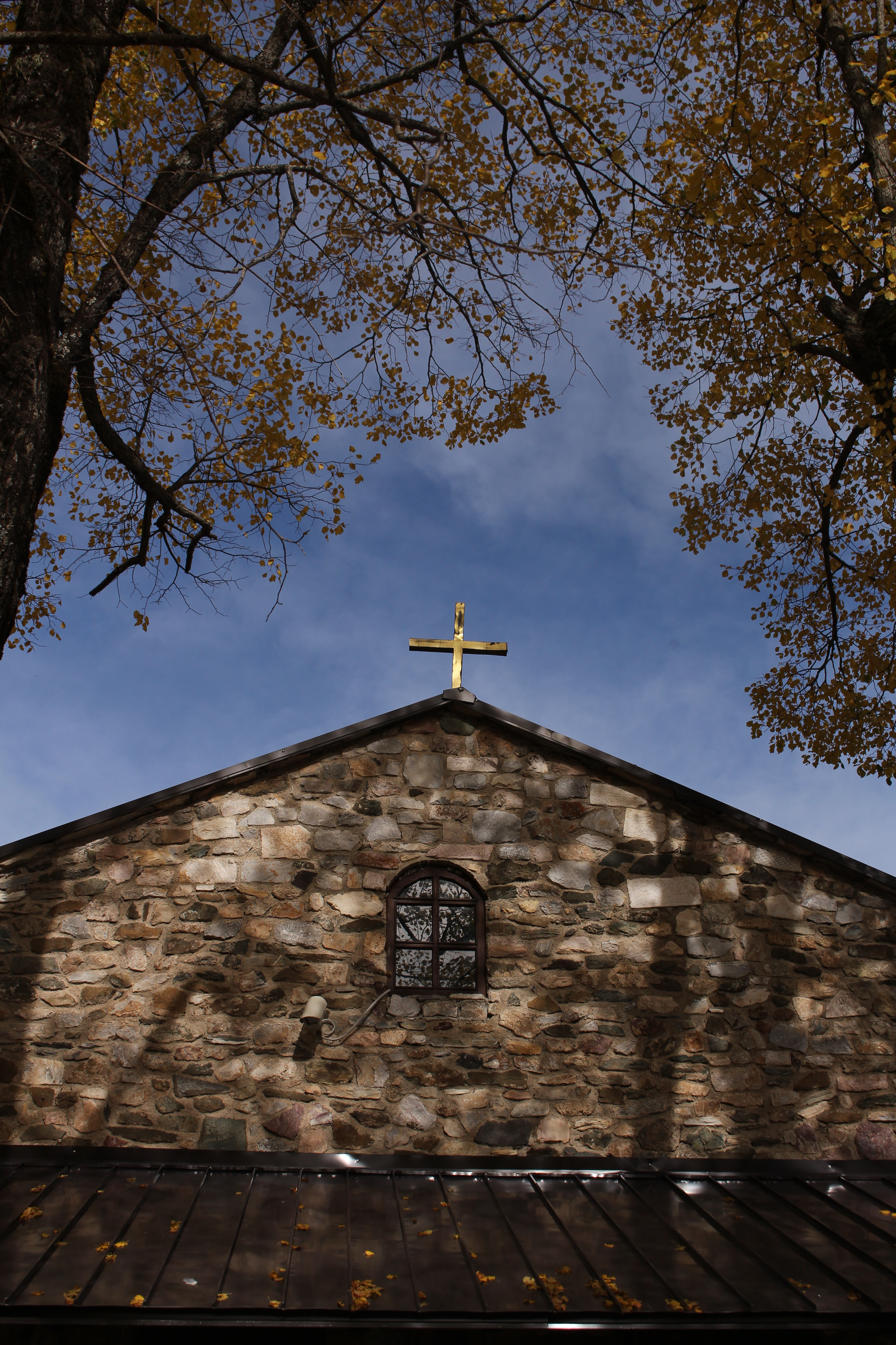 Church "St. Petka" Galichnik